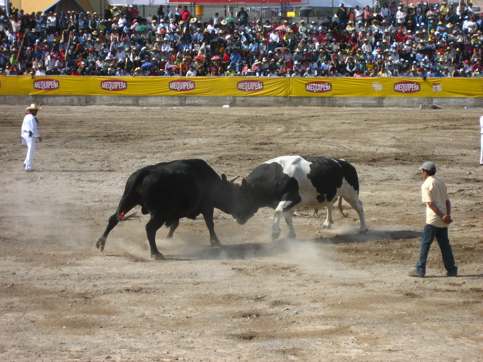 Photo taken from an arena during a bulls fight in Arequipa, Peru (peleas de toros de Arequia)